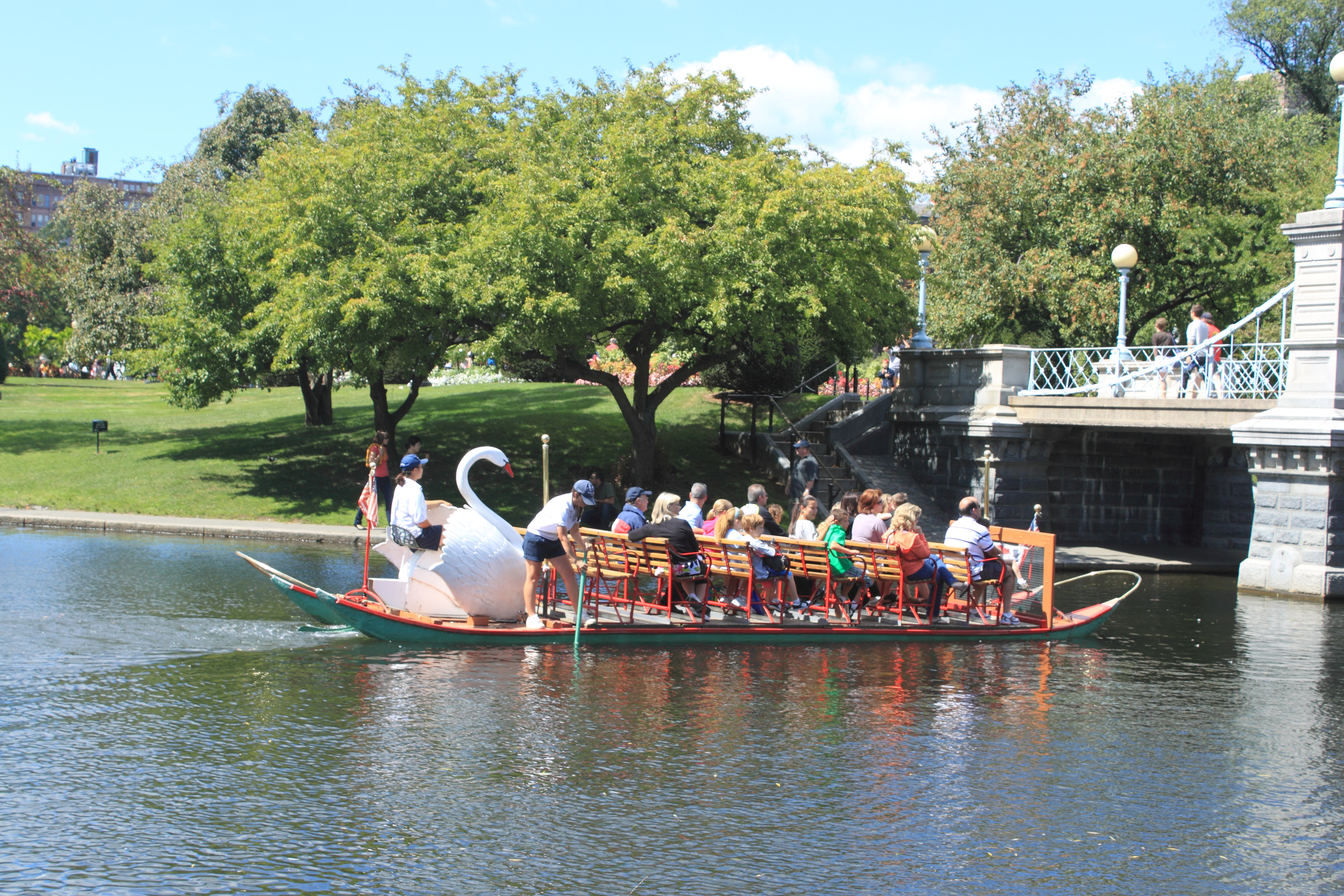 A Boston Swan Boat about to go under the Lagoon Bridge.